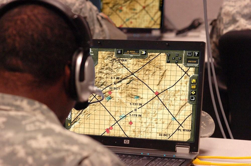 A Soldier at the U.S. Army Intelligence Center of Excellence's Military Intelligence Captain's Career Course plays the Collection Asset Management Simulator 2-dimensional game. The 2D product is focused on the tasks of a brigade collection manager.